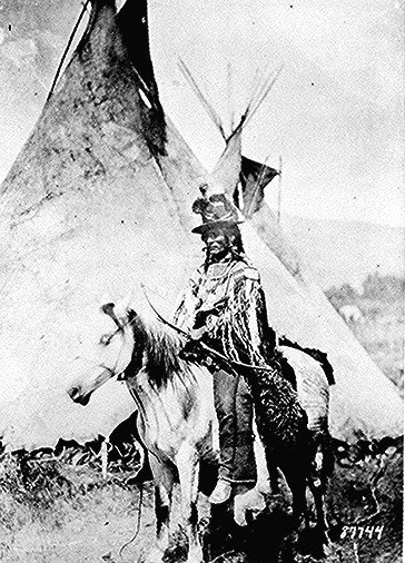 "Looking Glass", a Nez Perce' chief, on horseback in front of a tepee. Photograph, 1877.American Indian Select List number 106